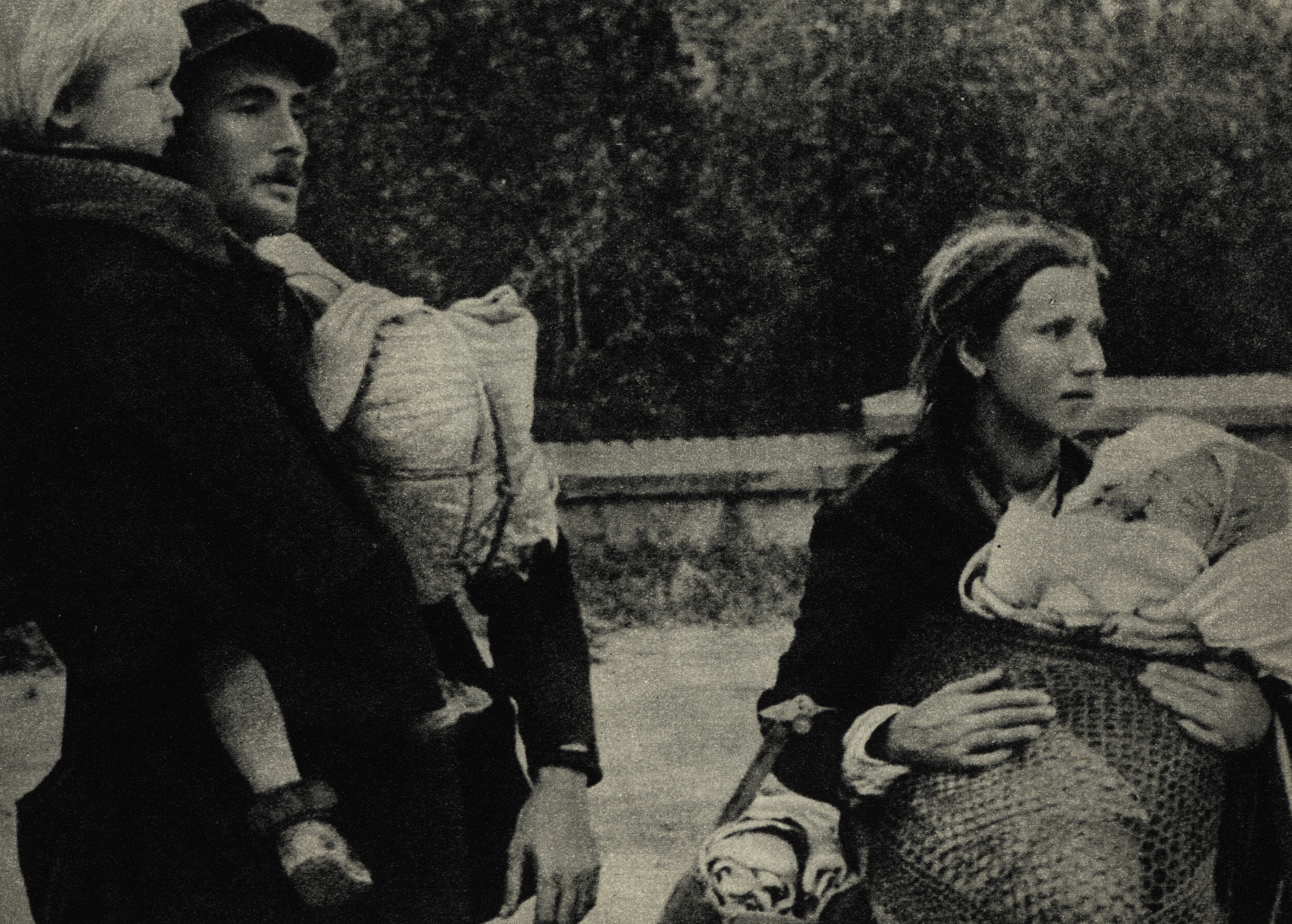 Warsaw Uprising 1944. Polish civilians are leaving the besieged city during the temporary cease-fire on September 7.